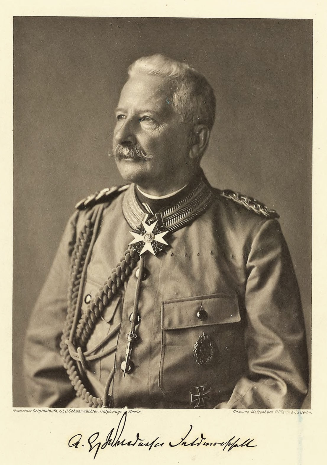 Alfred von Waldersee